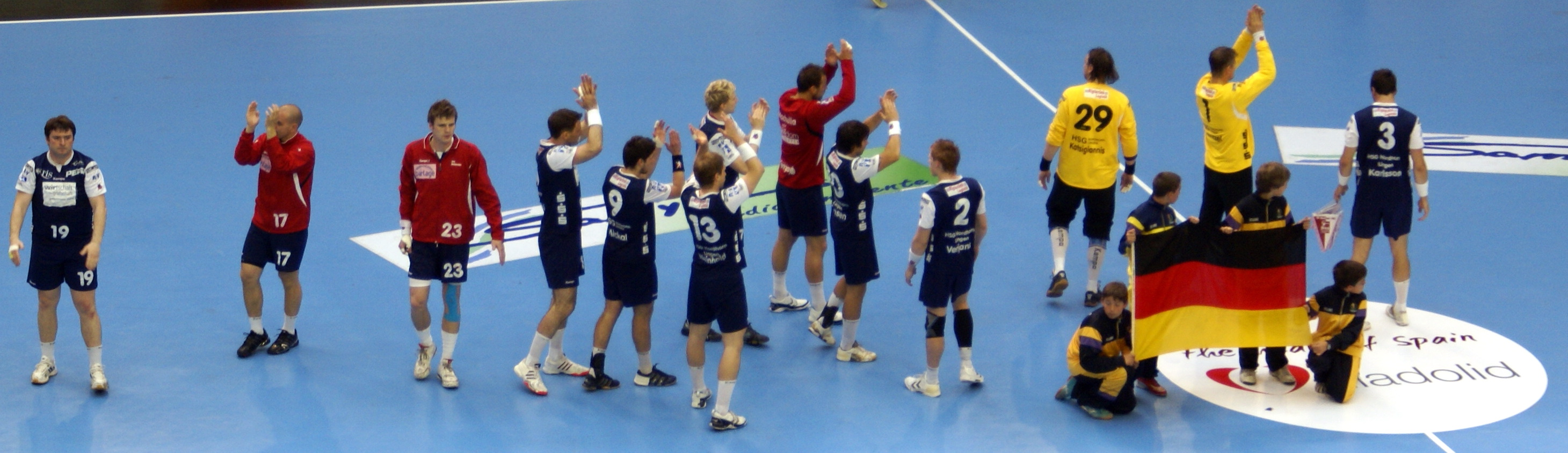 HSG Nordhorn lineup before the EHF Cup Winners' Cup final match vs BM Valladolid in Polideportivo Pisuerga, Valladolid, Spain.